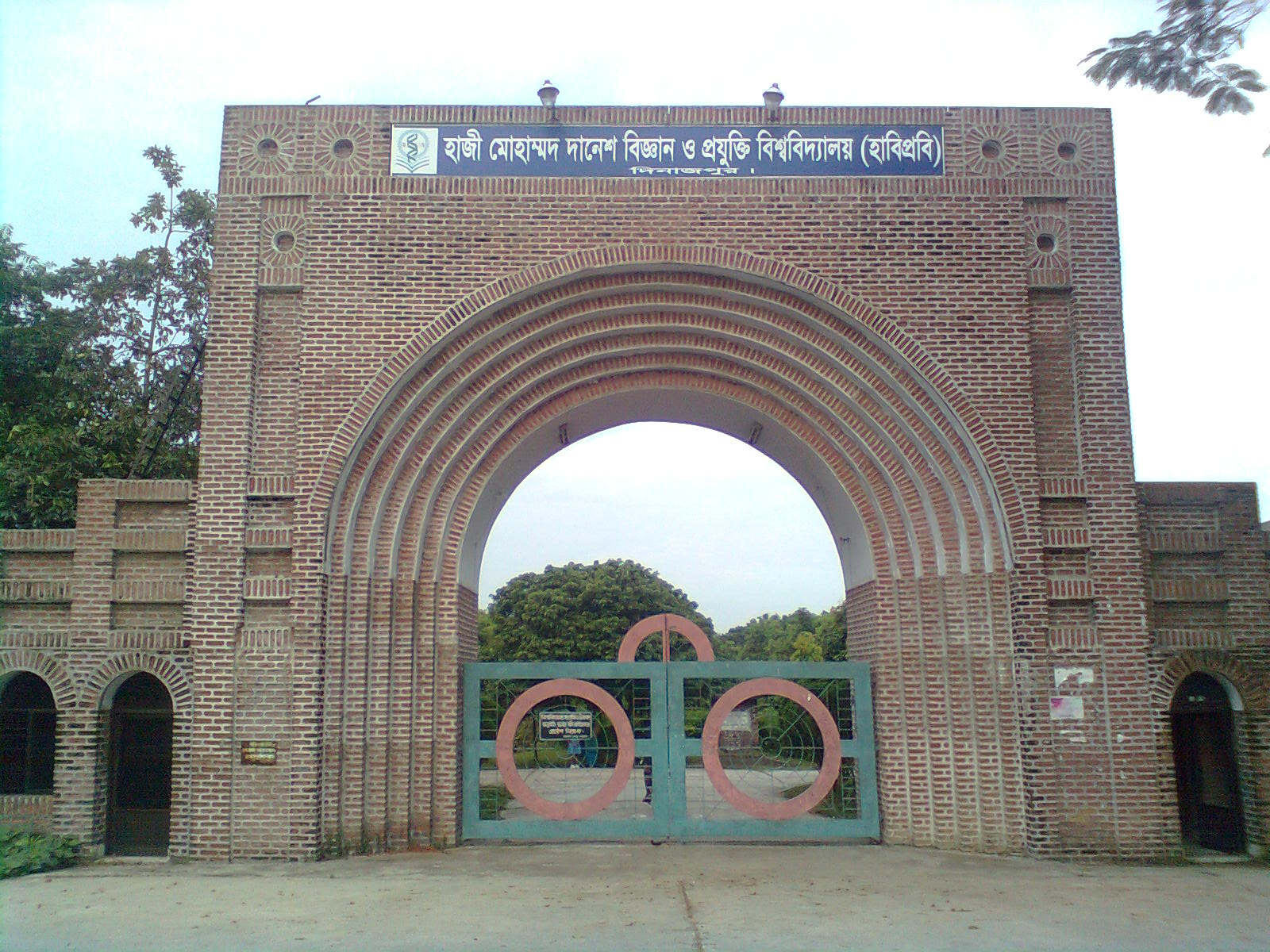 Dinajpur